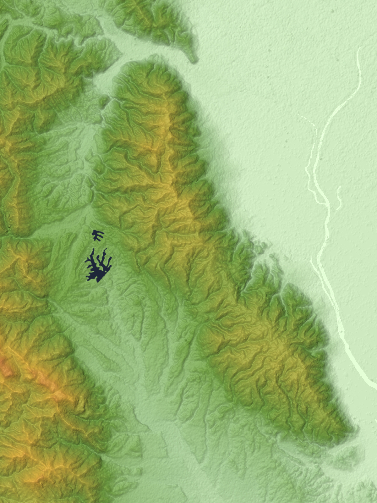 Yōrō Mountains in the border between Gifu and Mie Prefectures, Honshu, Japan.